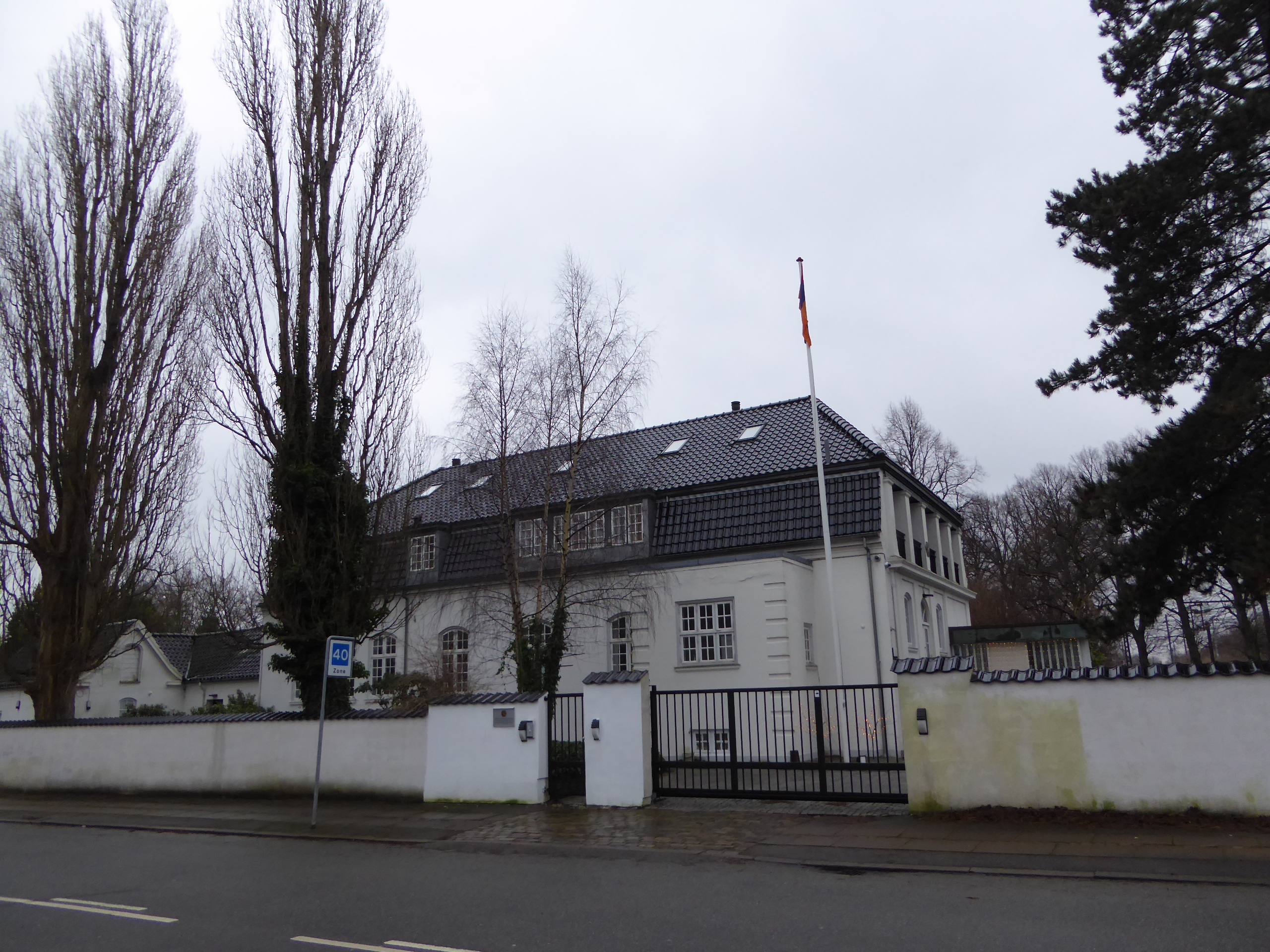 The embassy of Armenia at Norgesmindevej in Hellerup in Copenhagen. The adress of the embassy is Ryvangs Allé 50.